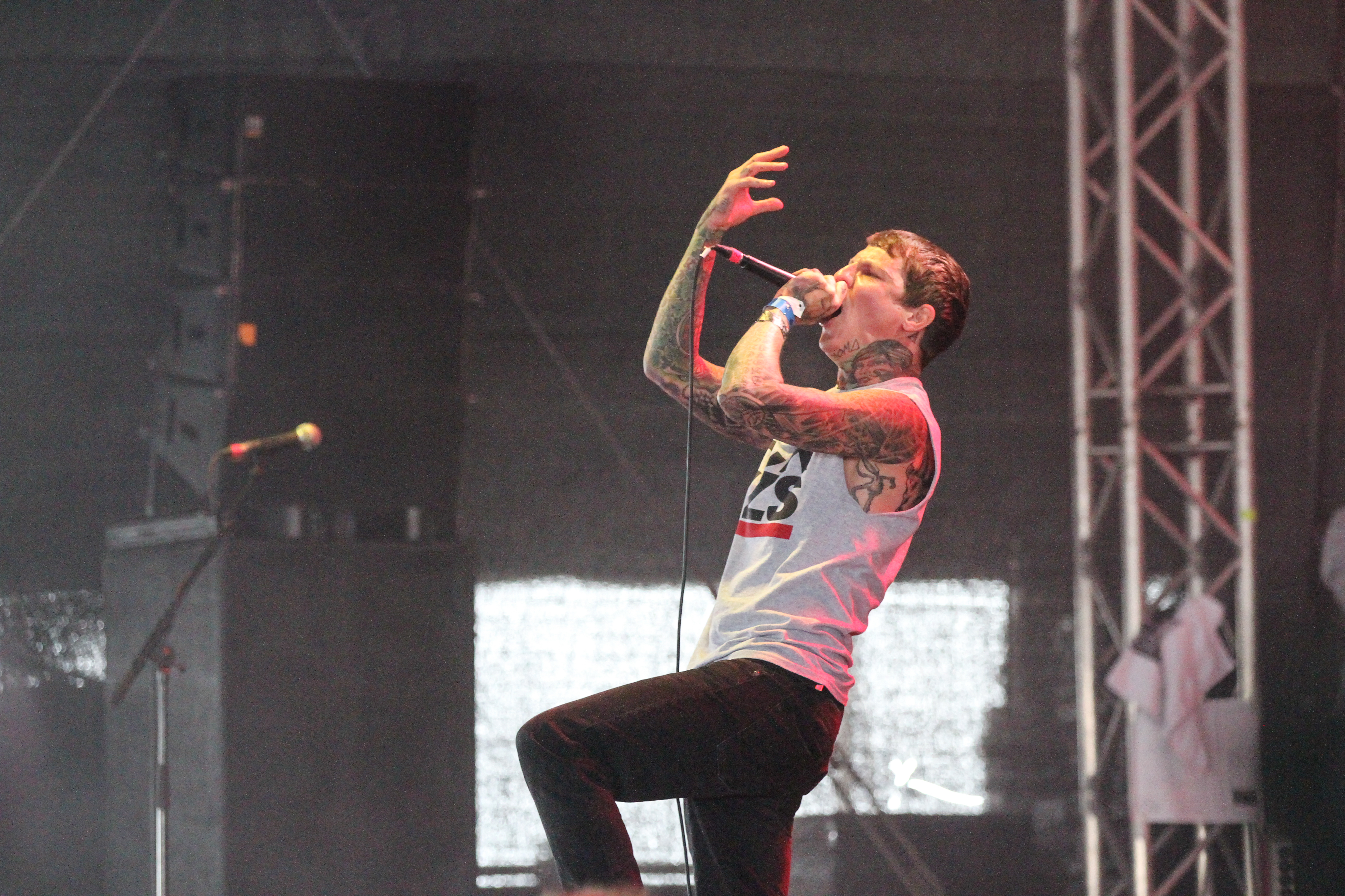 Festivalsommer This photo was created with the support of donations to Wikimedia Deutschland in the context of the CPB project "Festival Summer".